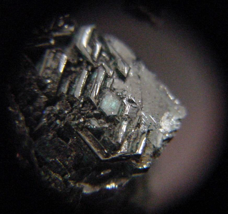 Moissanite (SiC), 14x magnification, Mineral collection of Brigham Young University Department of Geology, Provo, Utah.